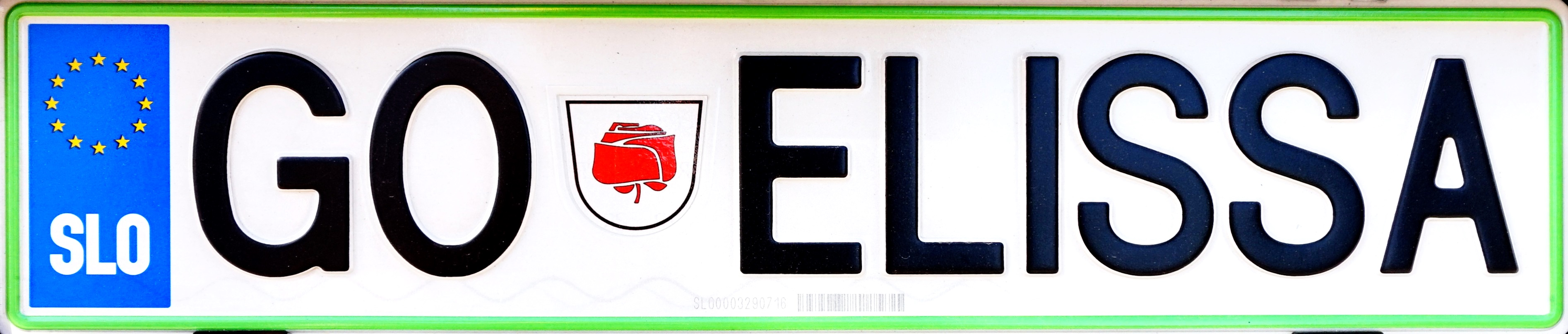 Personalized Slovenian license plate with the sticker of Nova Gorica administrative unit.